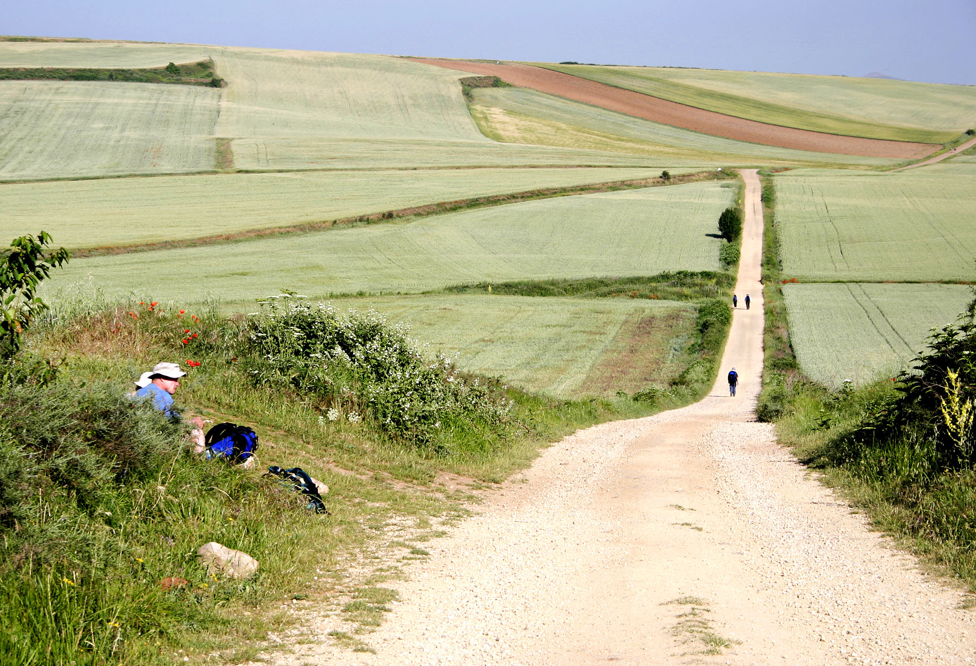 Some European pilgrims on the road to Santiago de Compostela